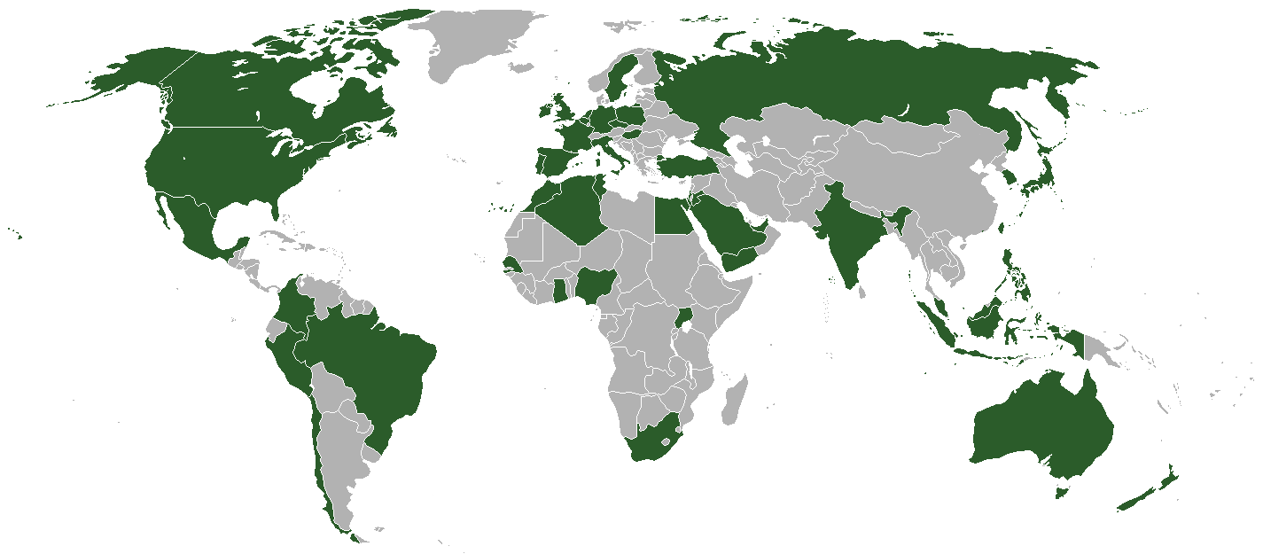 YouTube localization